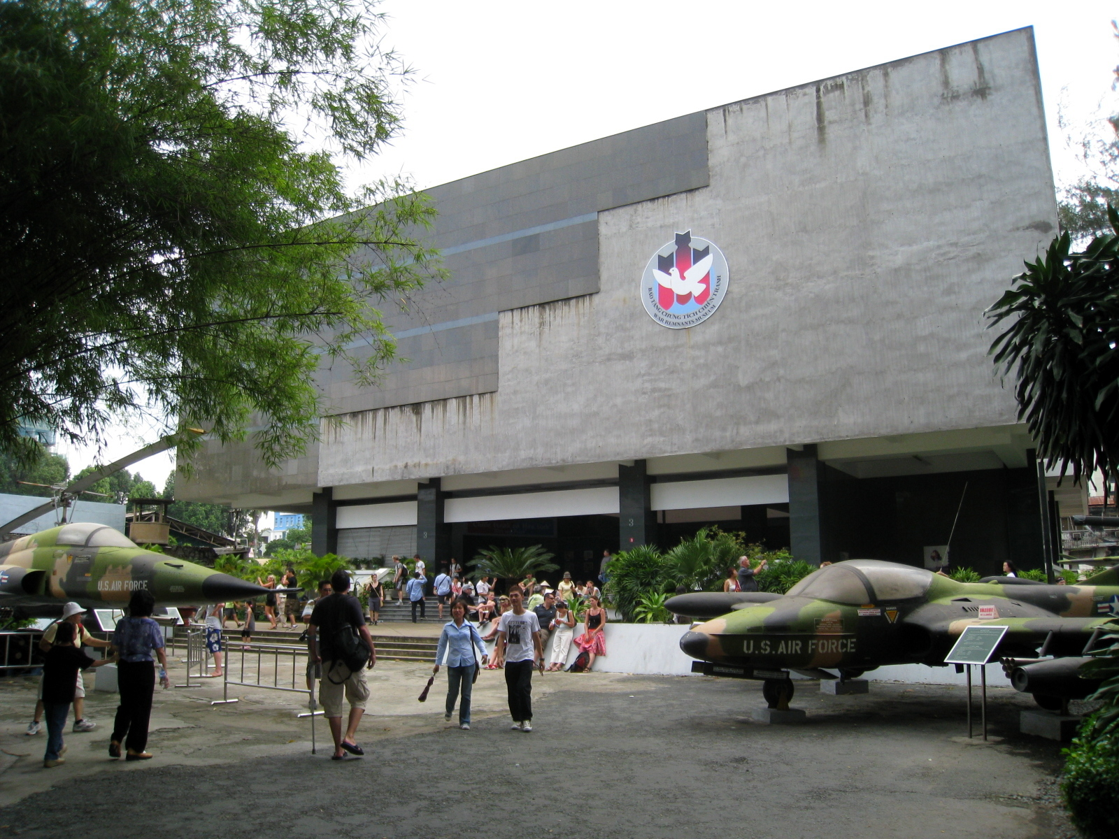 War Remnants Museum Main Building, Vietnam. On the left is a Northrop F-5A, on the right a Cessna A-37A. The paint scheme on both aircraft is not historic. 戰爭遺跡博物館